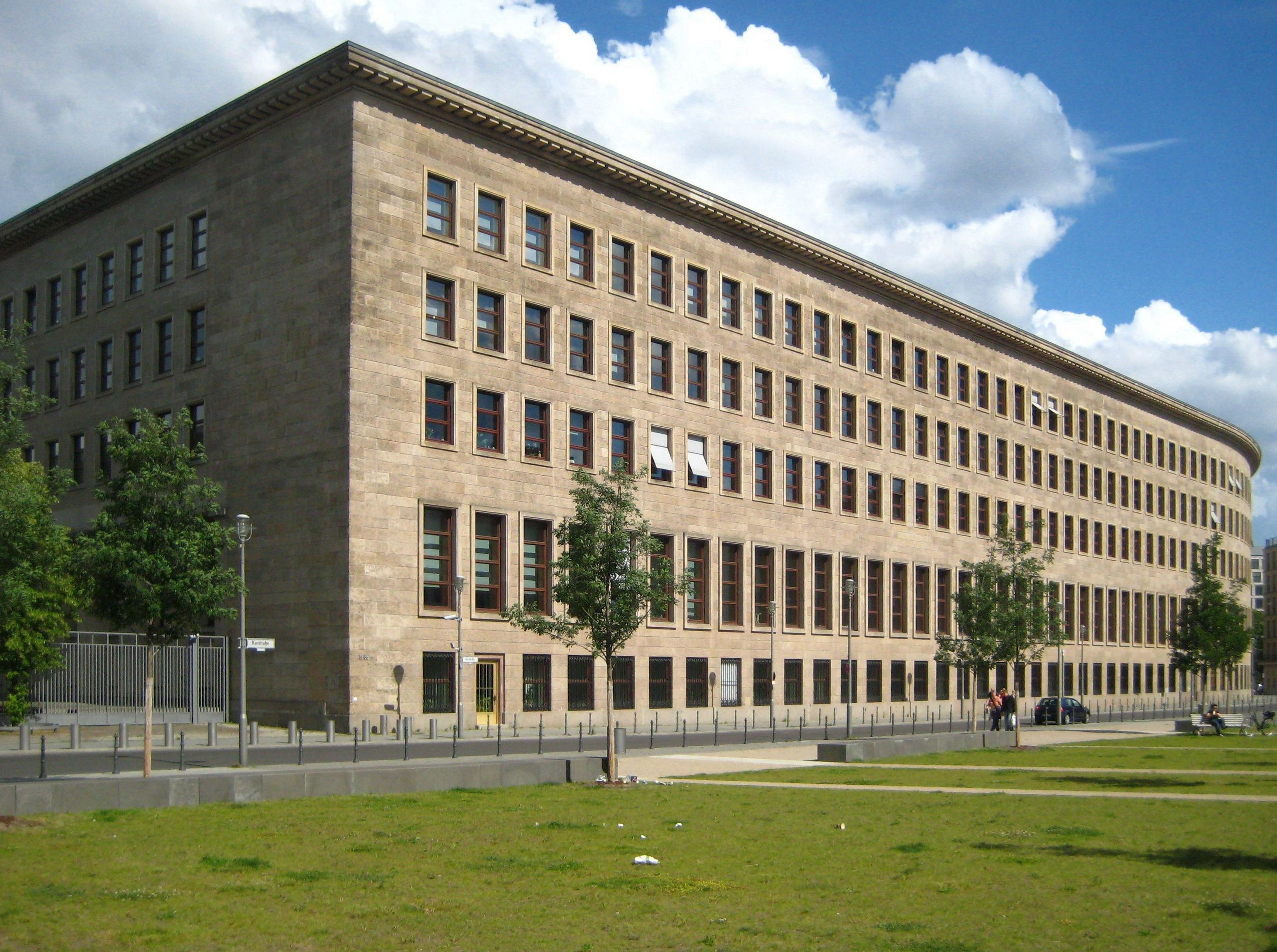 Kurstraße in Berlin-Mitte with the annex to the lost Reichsbank building by architect Heinrich Wolff, built 1934-1940. It is now part of the Auswärtiges Amt, the foreign ministry of the Federal Republic of Germany.